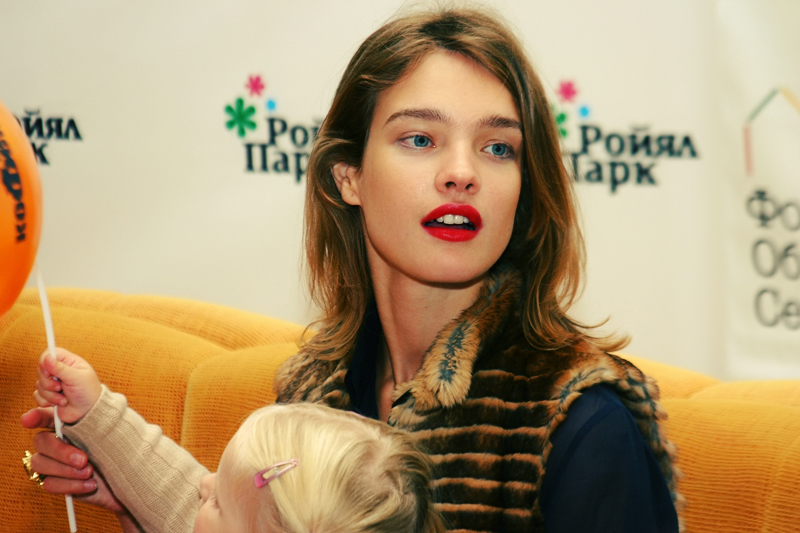 Natalia Vodianova at the press-conference in Novosibirsk, Russia.